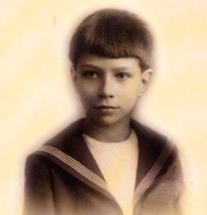 Portrait of a boy in sailor suit